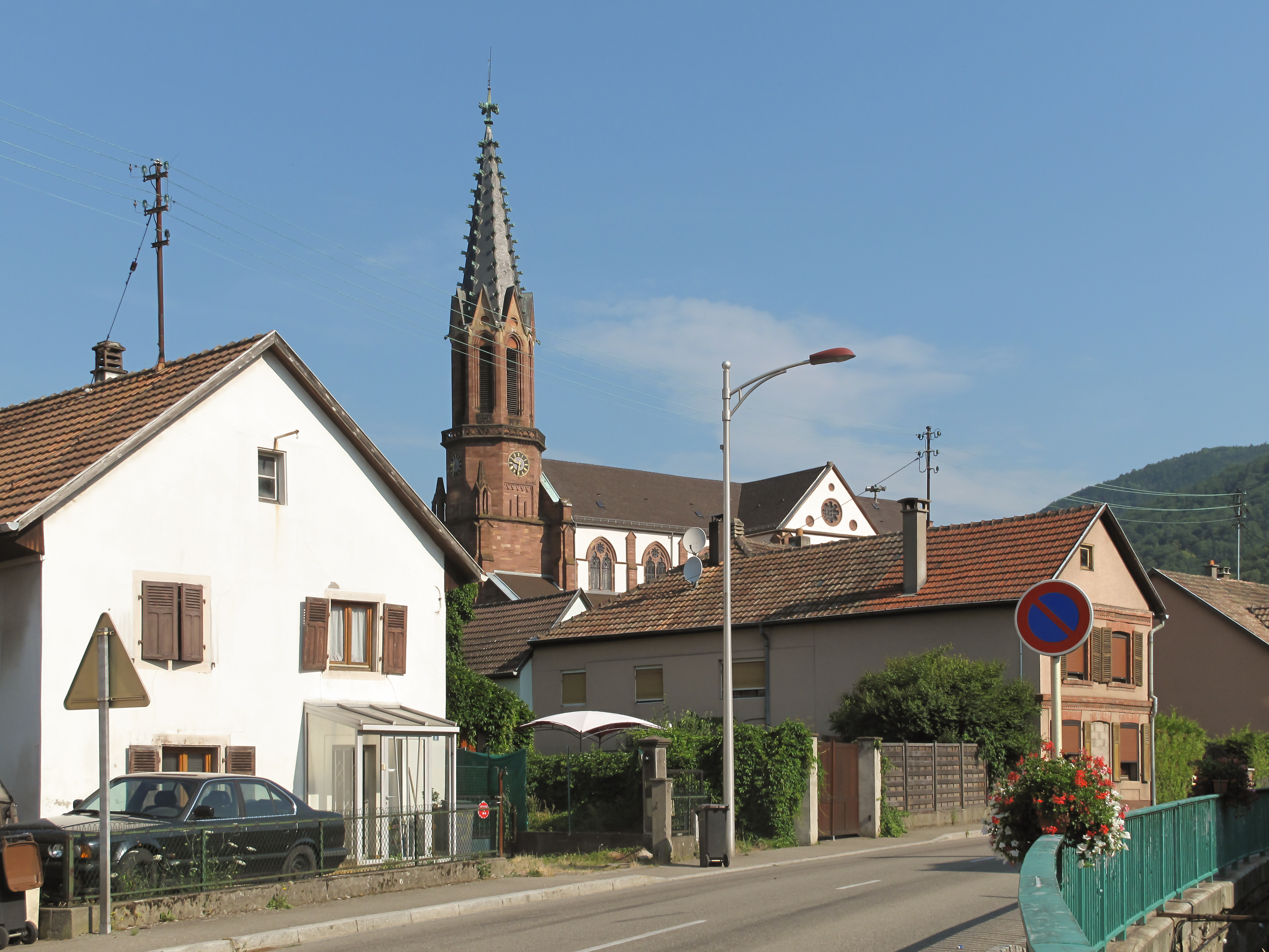 Willer sur Thur, church: l'église Saint-Didier in straatzicht